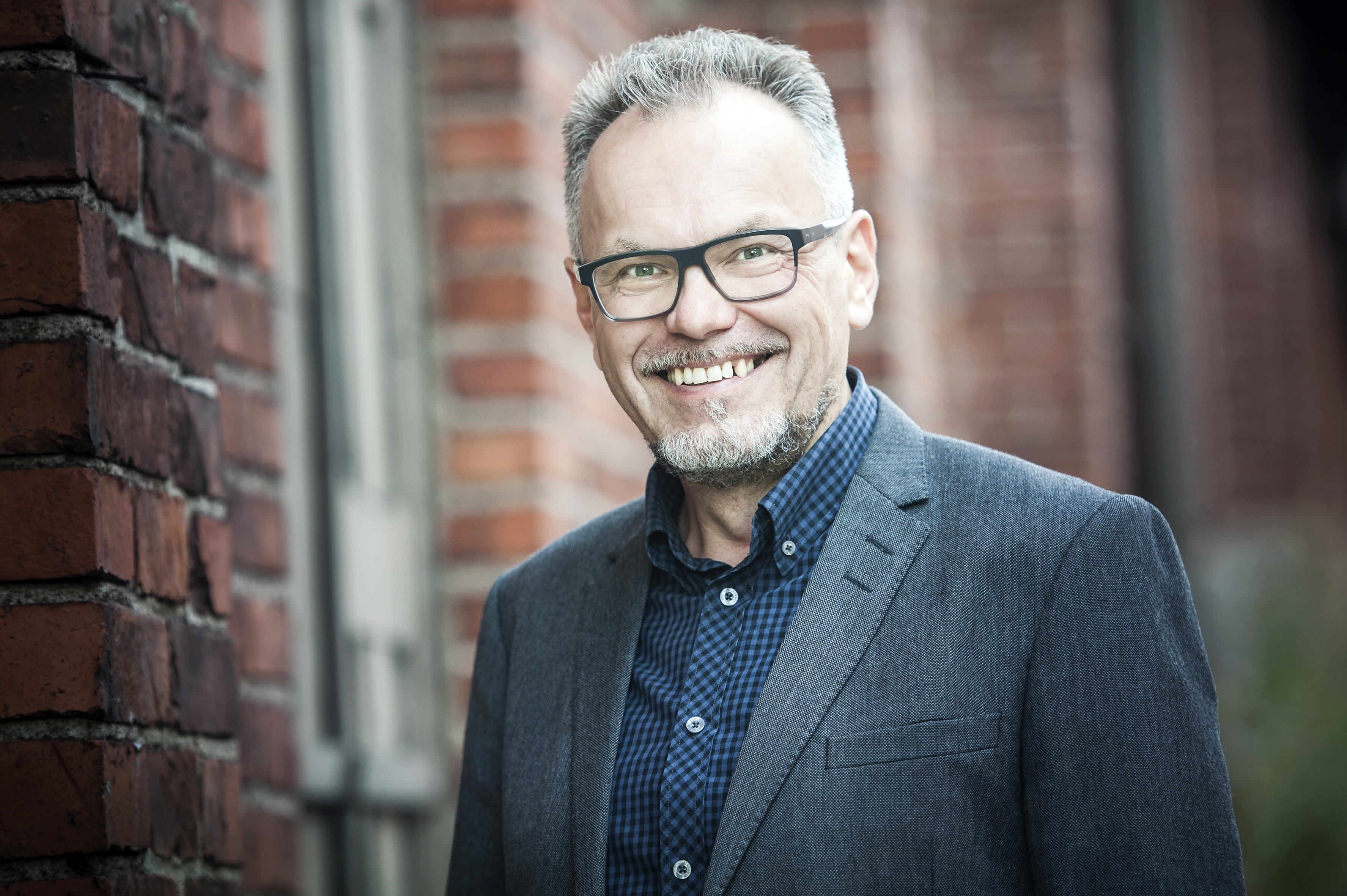 Portrait of Jarmo Eskelinen, media and technology expert from Finland, published on the website of the Data Driven Innovation programme of the University of Edinburgh which Jarmo Eskelinen has led since October 2018. Photographer Uupi Tirronen.